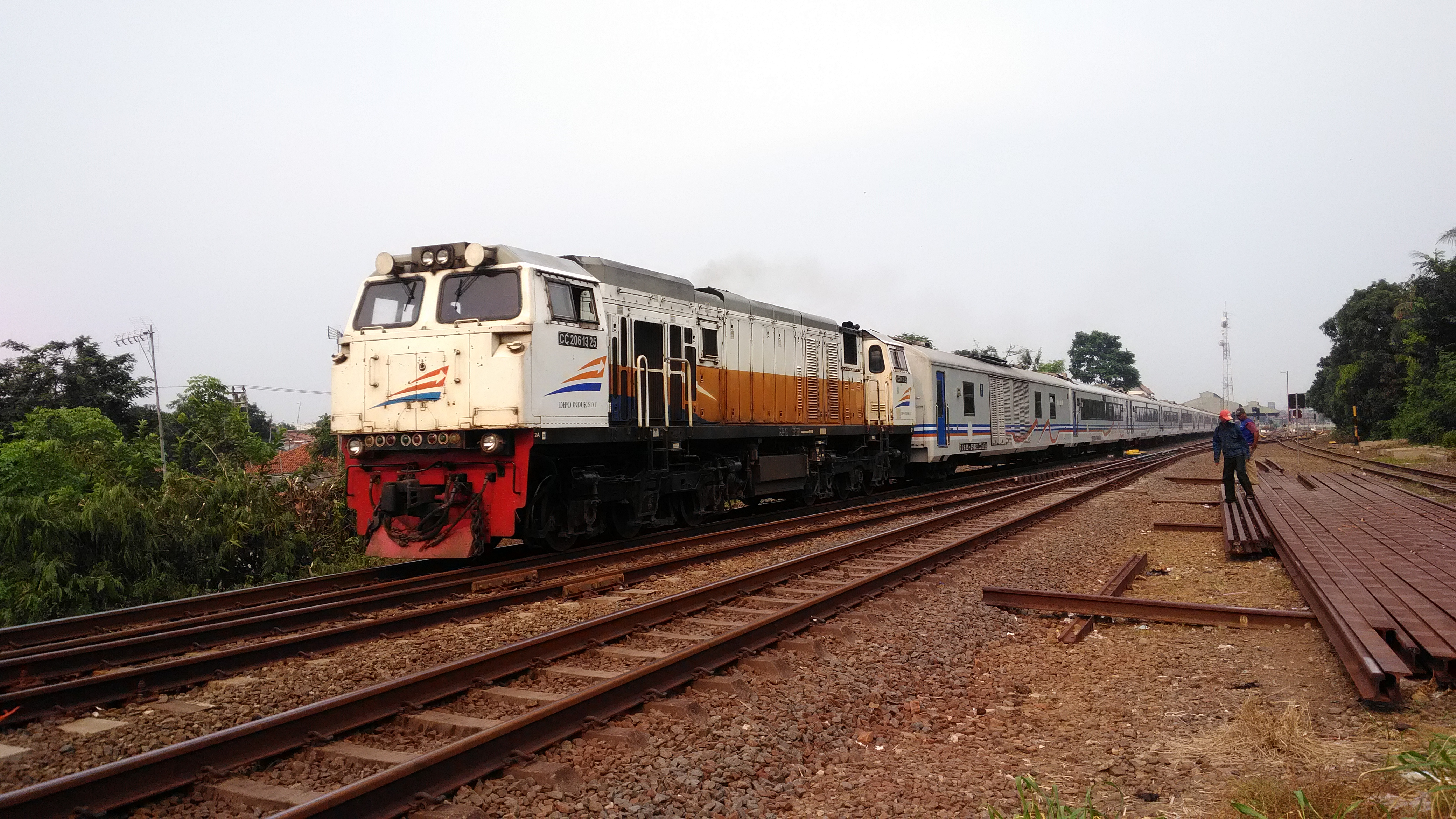 Argo Lawu Train crossing Cikampek Area